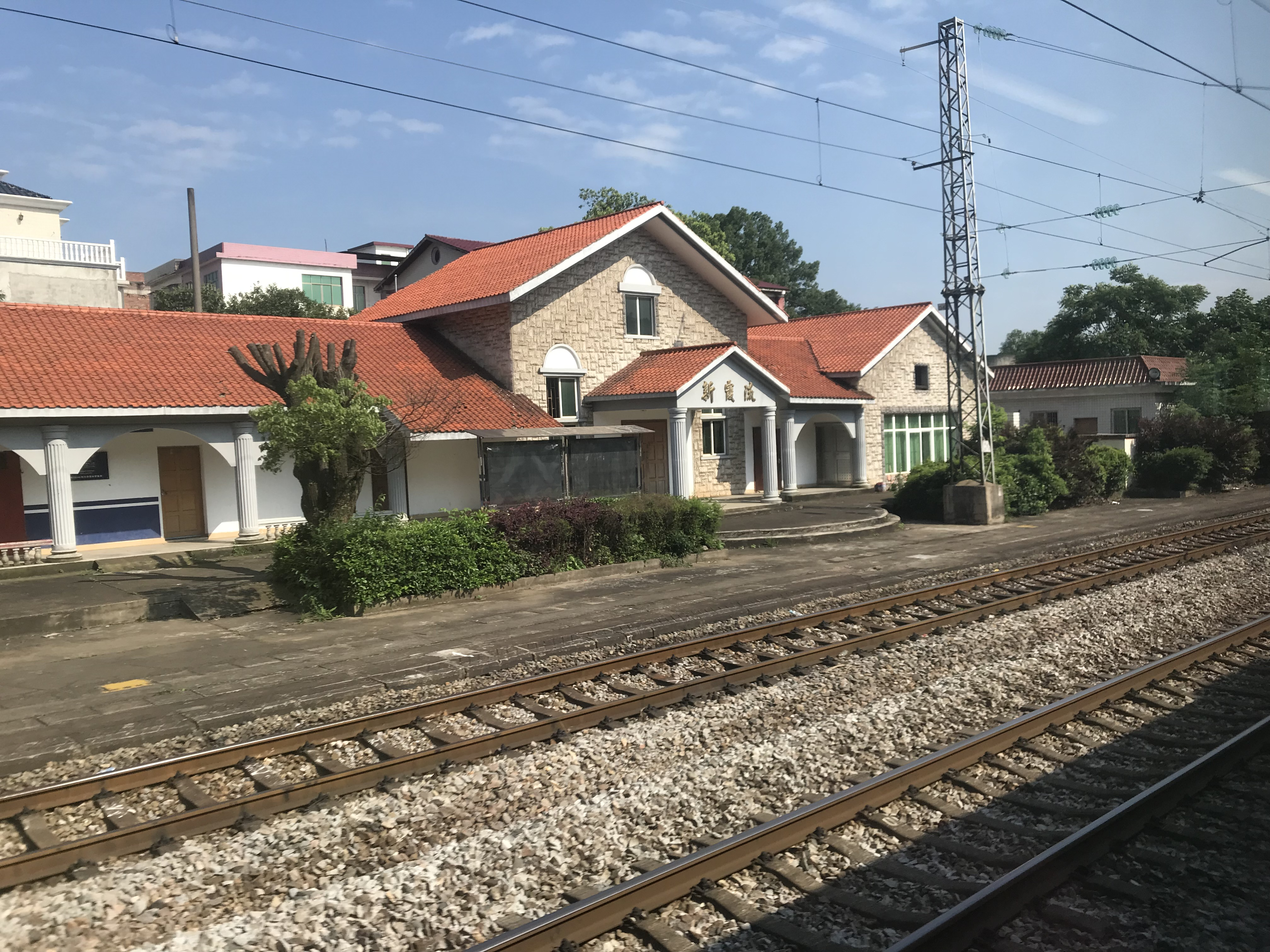 Don't be fooled by the missing "shi" on the station building.